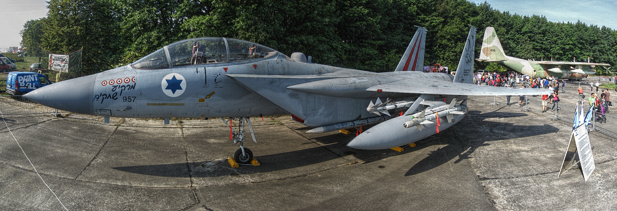 Israeli Air Force F-15D Baz '957' (named 'Markia Schakim', 'Sky Blazer' in Hebrew) of the 106 'Spearhead' squadron at Dny NATO (NATO days) in Ostrava, Czech Republic. The aircraft was involved in the 1983 Negev mid-air collision, when, after colliding with an A-4 Skyhawk, it was able to land after its right wing has been cut off. The aircraft was involved in 4.5 air-to-air victories: on 8 june 1982 Shaul Schwartz and Reuven Sholan shot down a Syrian MiG-21 with AIM-7F Sparrow on 10 june 1982 Avner Naveh and Michael Cohen shot down a MiG-23 With an AIM-7F, another MiG-23 and a MiG-21 with Python 3 missiles on 19 november 1985 Yuval Ben-Dor and Ofer Paz shot down a MiG-23 with a Python 3 missile (shared, thus only a half victory)